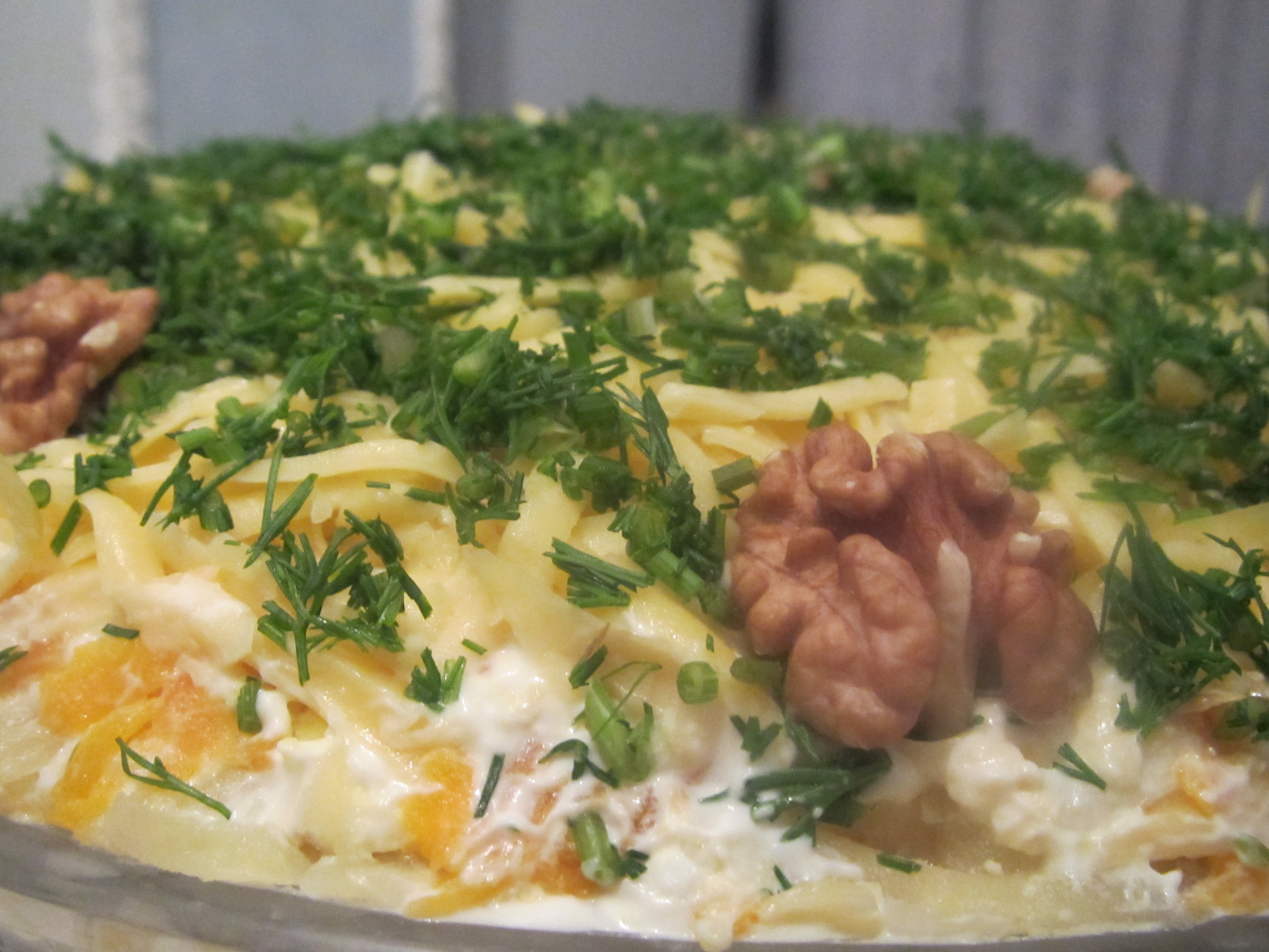 Mimoza salad